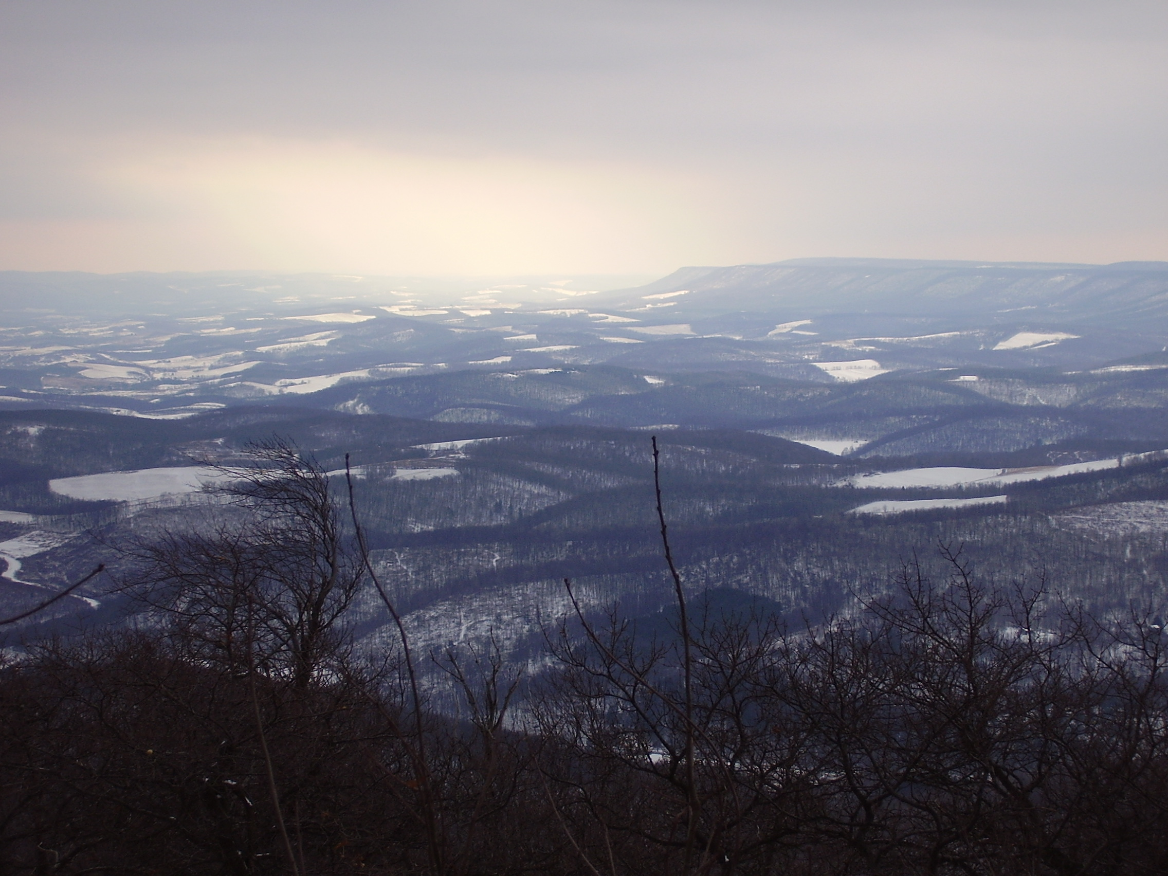 View from Pavia Overlook in January 2007